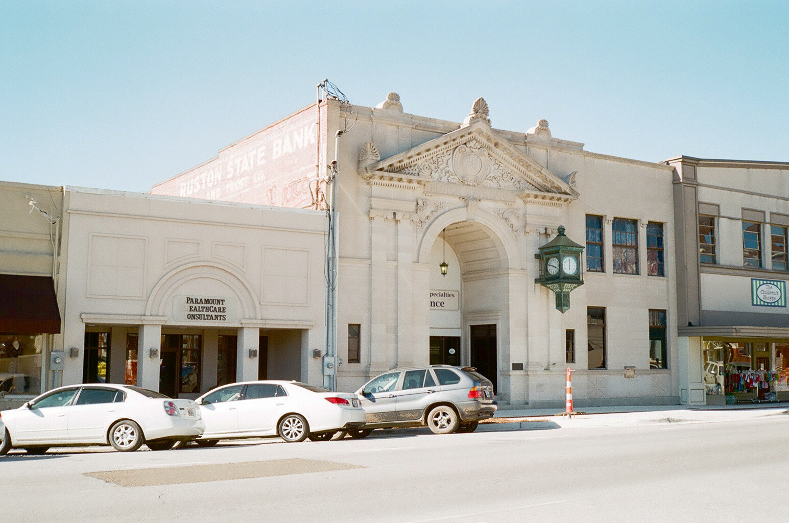 This is the old Ruston State Bank, located in Ruston, LA, USA. This image was taken on January 18, 2013, using Fuji 200 ASA color print film and a Sears/Ricoh 35rf rangefinder camera with a 40mm lens.